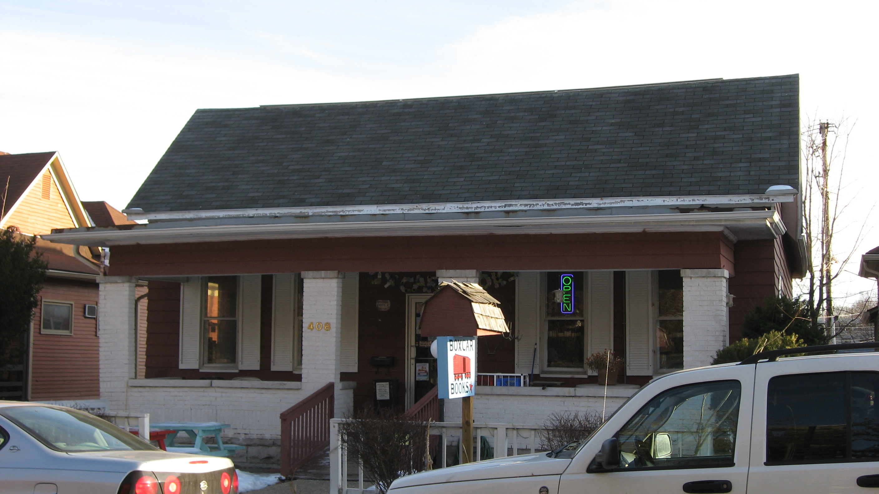 Front of Boxcar Books, located at 408 E. Sixth Street in Bloomington, Indiana, United States. Built in 1907, it is part of the locally-designated Old Library Historic District.